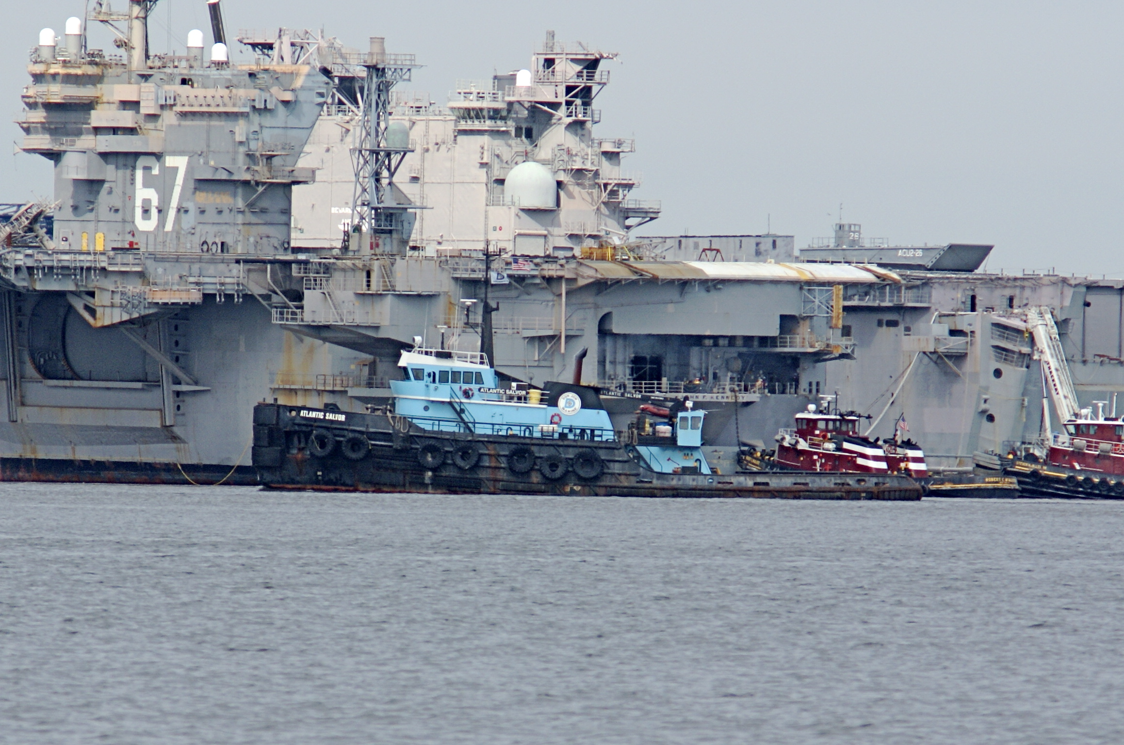 Philadelphia Naval Shipyard, Delaware River. Tug Atlantic Salvor (c) stands by as her recent charge, Ex-USS John F. Kennedy (lr), is docked in Philadelphia. Also in the picture is Ex-USS Saipan (LHA-2) (rr).